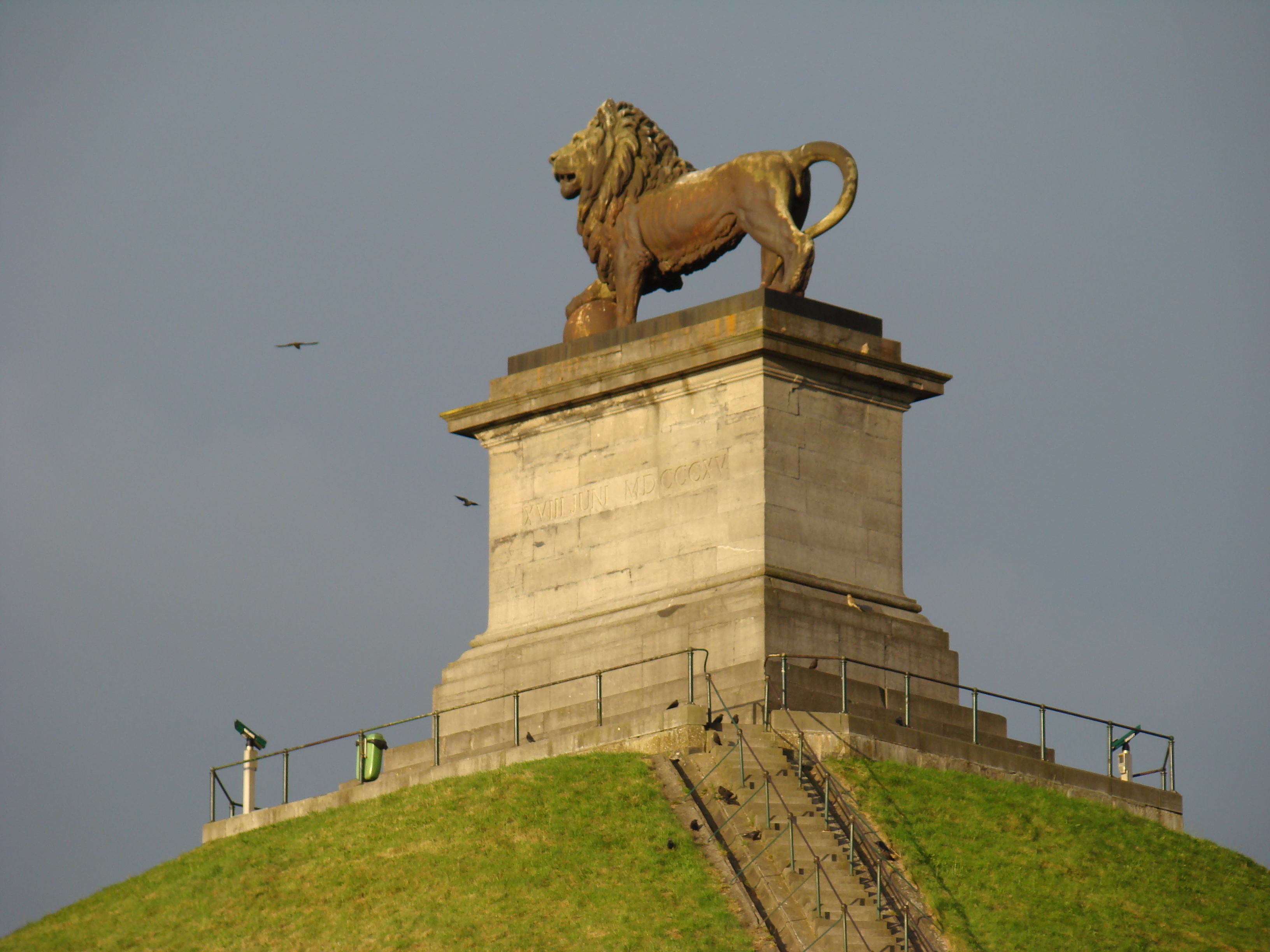 The lion of Waterloo, Waterloo (Walloon Brabant, Belgium)